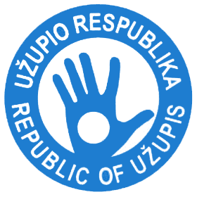 Coat of Arms of the Republic of Uzupis